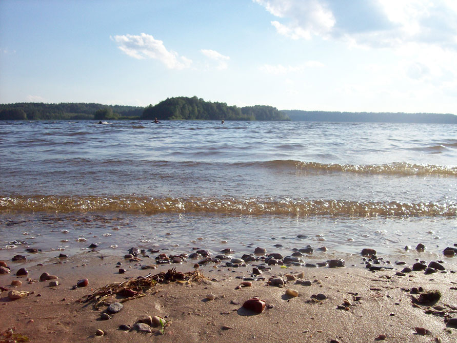 Lake Sapsho (Ozero Sapsho)